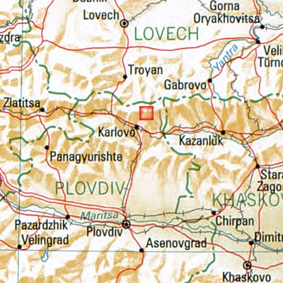 location fo Botev vrach in Bulgaria